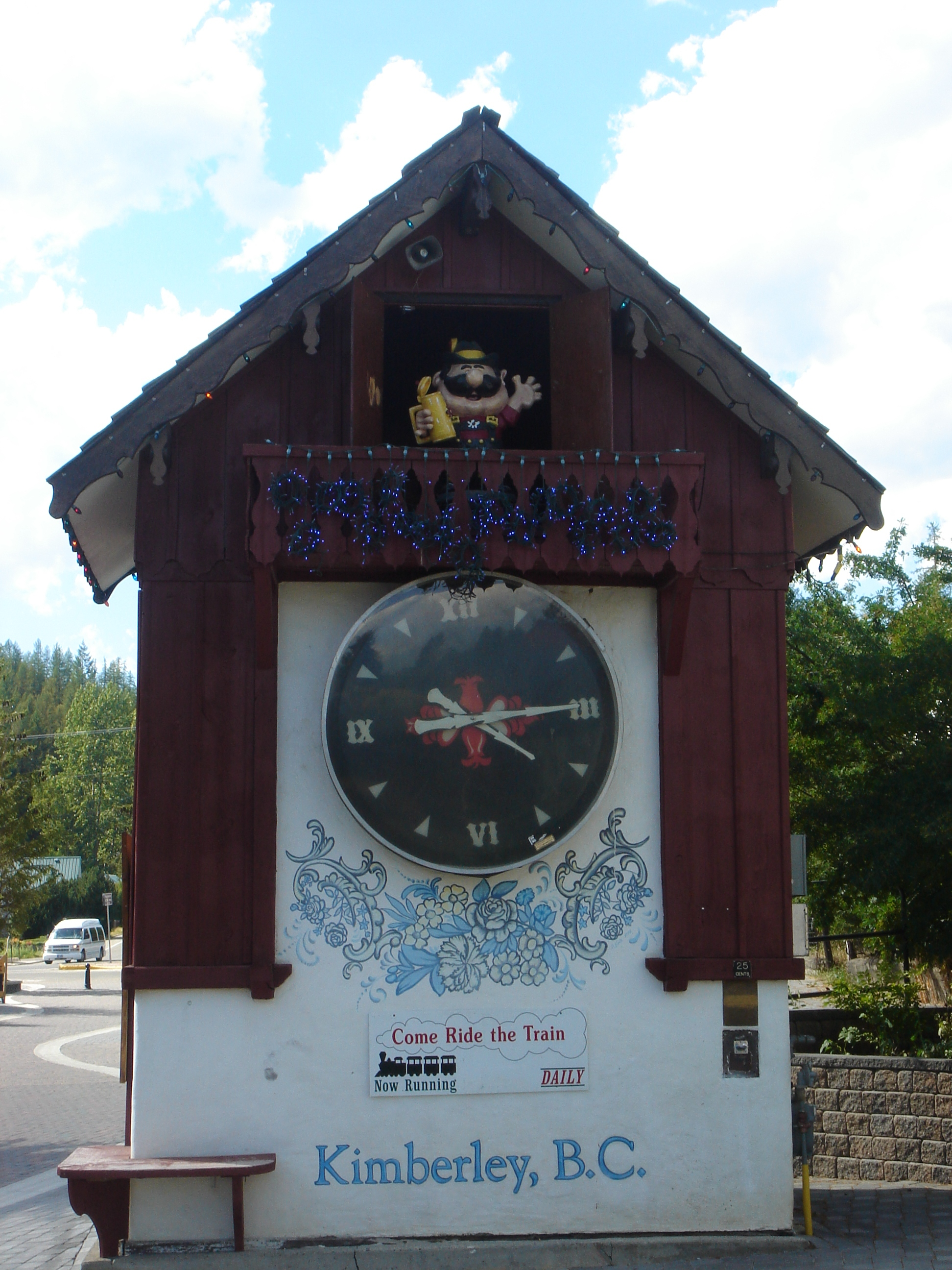 Bavarian cuckoo clock in Kimberley, British Columbia, August 9, 2005. It is claimed that this is the largest working cuckoo clock in the world.